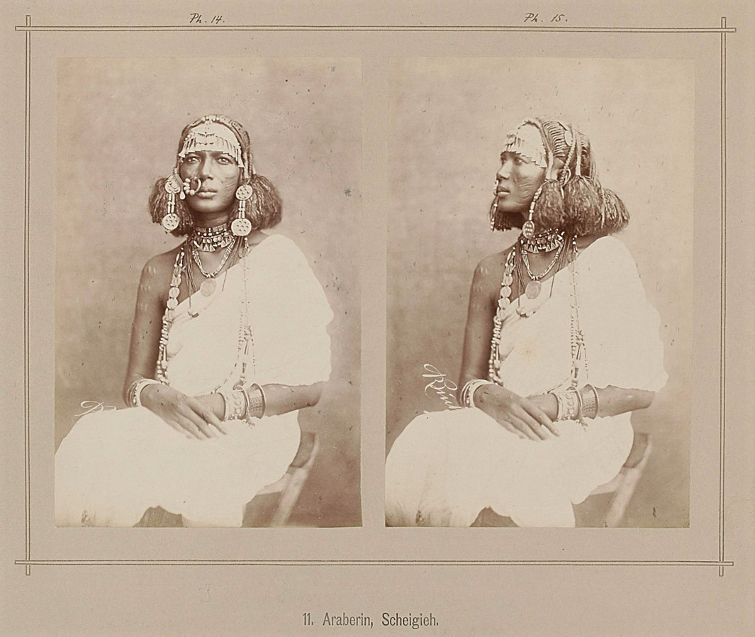 historical portrait, African woman, jewellery, body art